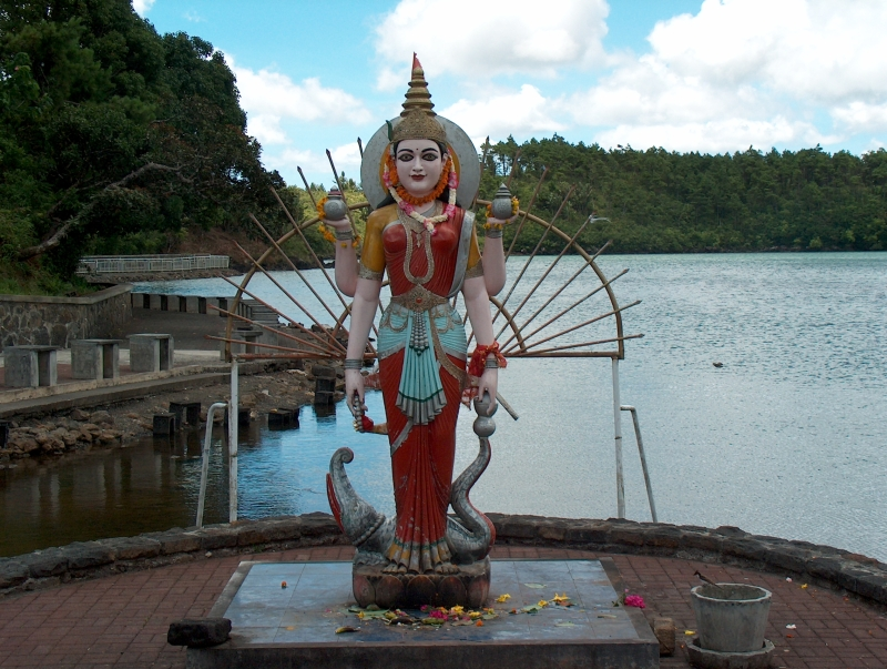 Lakshmi is the Hindu goddess of wealth, prosperity (both material and spiritual), fortune, and the embodiment of beauty. She is the consort of the god Vishnu. Representations of Lakshmi are also found in Jain monuments. In Buddhism, Lakshmi manifests as Vasudhara.